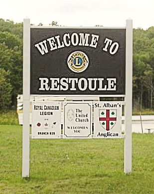 Modified version of picture submitted by Earl Andrew as Restoulesign.jpg. Modified by David 20:32, August 22, 2005 Earl Andrew (Talk